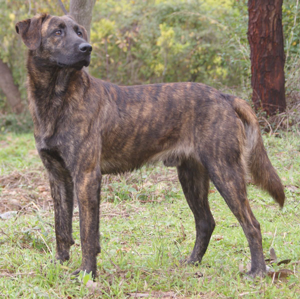 Cursinu, a dog race from Corsica.